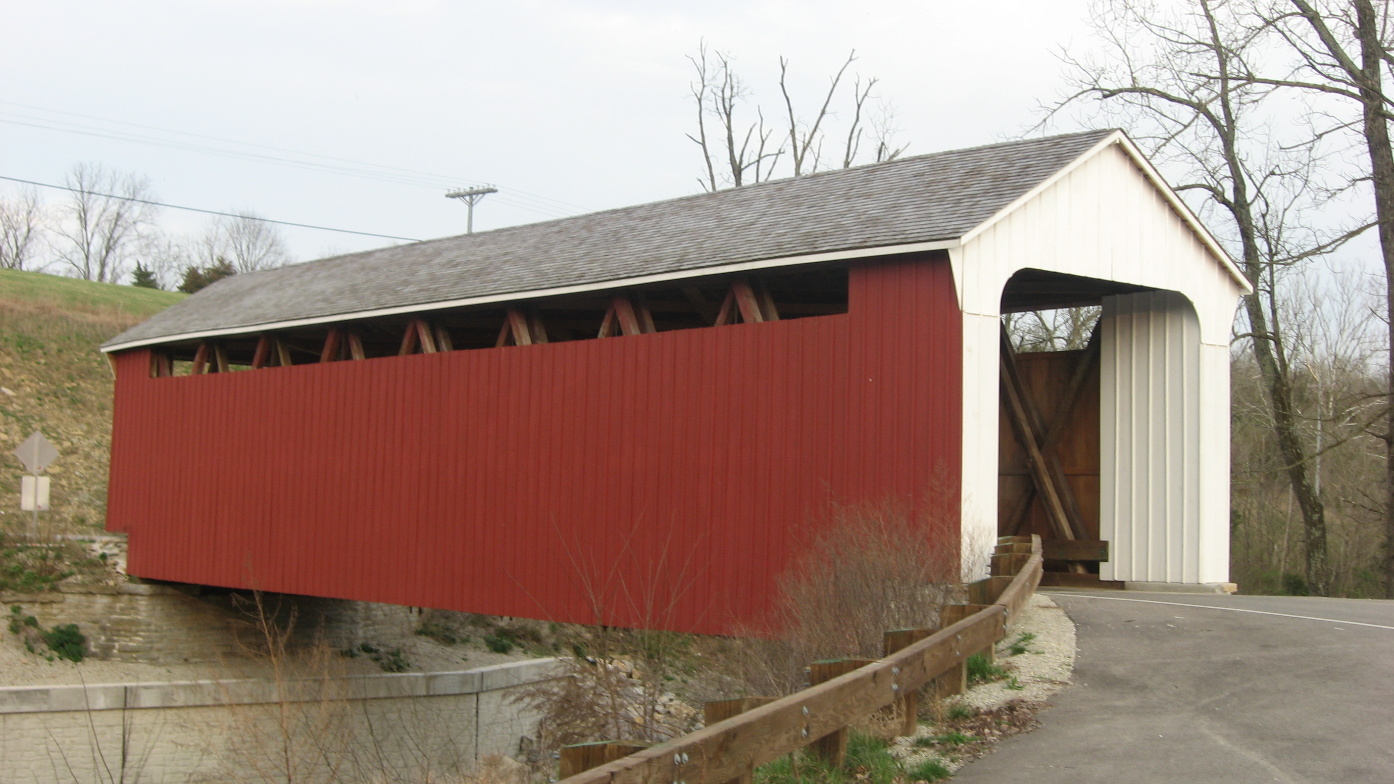 Western portal and northern (upstream) side of the Snow Hill Covered Bridge, which carries Snow Hill Road over the Johnson Fork northwest of Rockdale in Whitewater Township, Franklin County, Indiana, United States. Built in 1895, it is listed on the National Register of Historic Places.